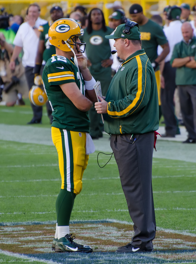 San Francisco 49ers vs. Green Bay Packers at Lambeau Field on September 9, 2012. Photo by Mike Morbeck.